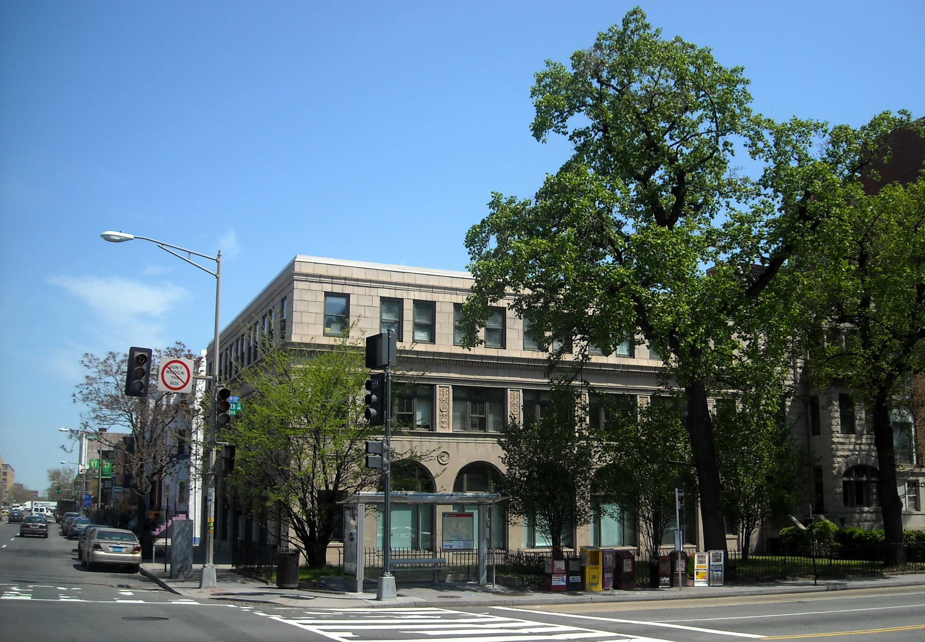 Offices for the Center for Community Change located at 1536 U Street NW (intersection of 16th Street, New Hampshire Avenue, and U Street) in Washington, D.C. Built in 1921 as a Paige-Jewett automobile dealership, the Classical Revival commercial building is designated a contributing property to the Sixteenth Street Historic District, listed on the National Register of Historic Places in 1978. In addition to the Paige-Jewett dealership and the Campaign for Community Change headquarters, 1536 U Street NW has served as offices for the Northwest Family Center and the Multicultural Services Division (health agencies operated by the D.C. government), headquarters for Marion Barry's Pride, Inc. (also known as the Pride Building or Pride Headquarters during that time period), and offices for the National Radio Institute, a radio correspondence school.